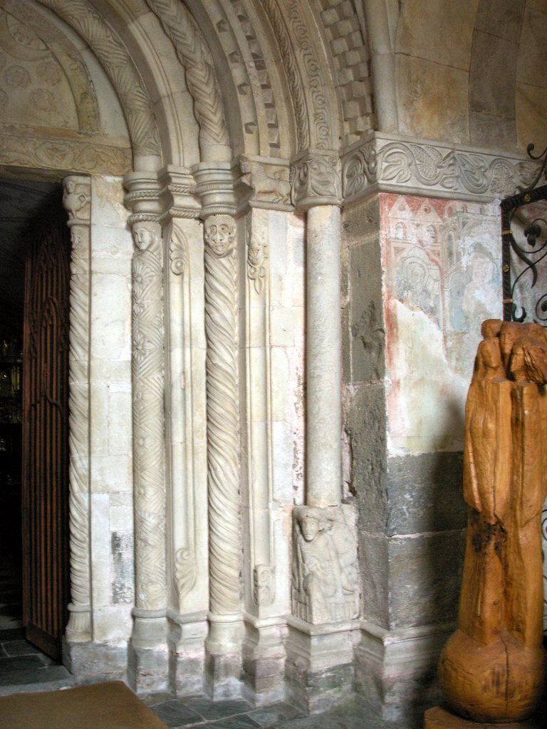 Curch of the monestry of Millstatt district Spittal an der Drau in Carinthia / Austria / EU. Romance portal.